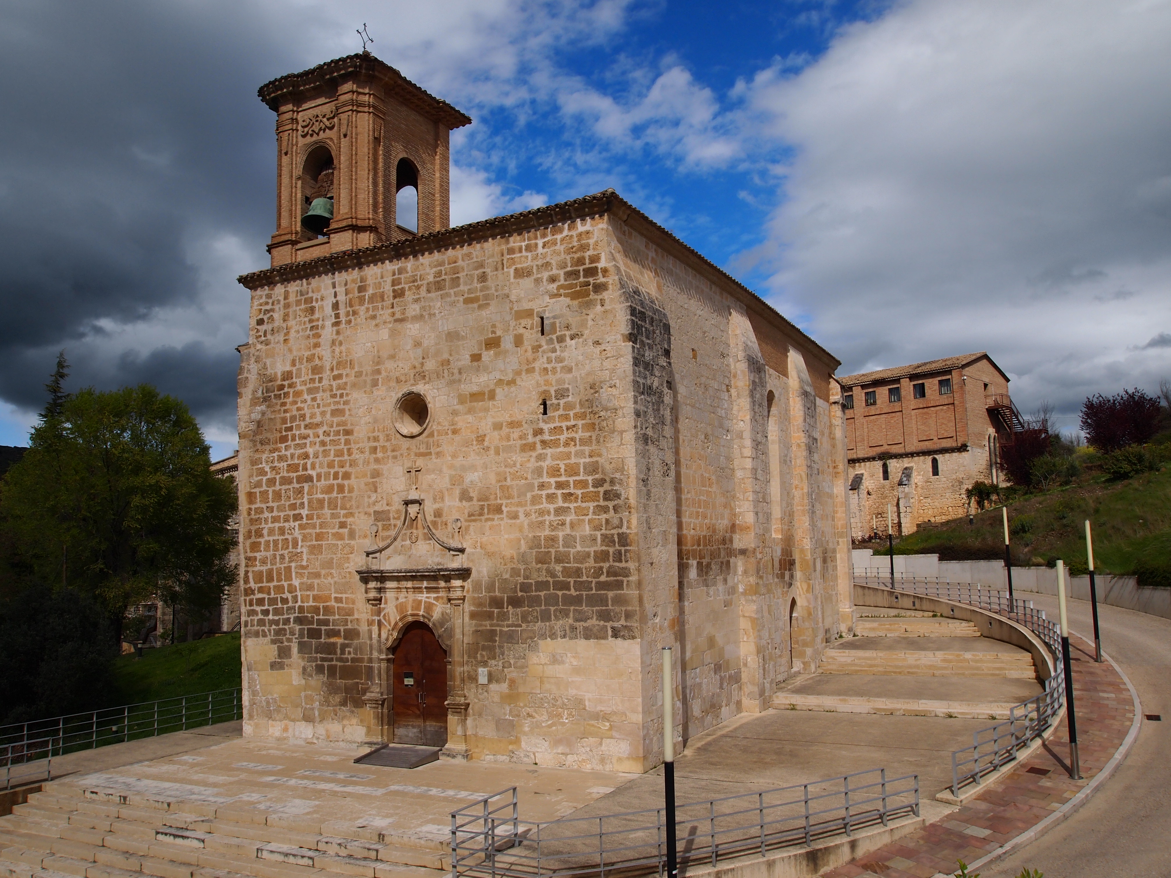 The Church of "Santa María Jus del Castillo" in Estella